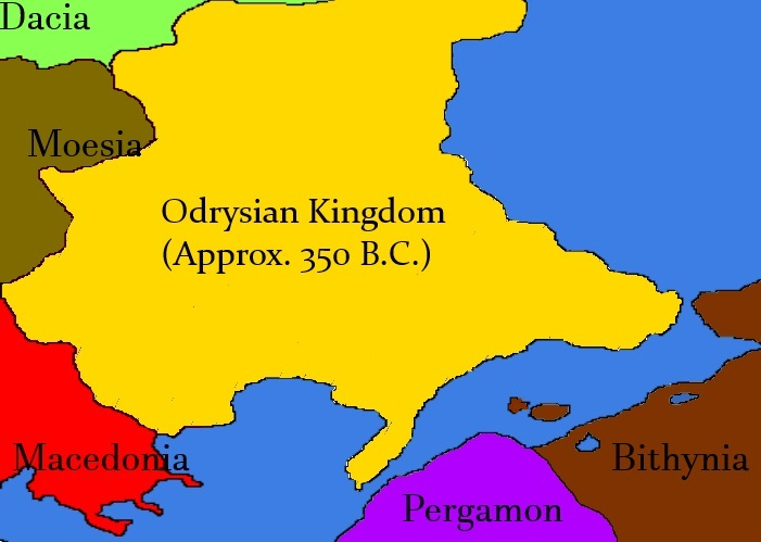 A map depicting the Odrysian kingdom at the height of it's power, in Thrace.